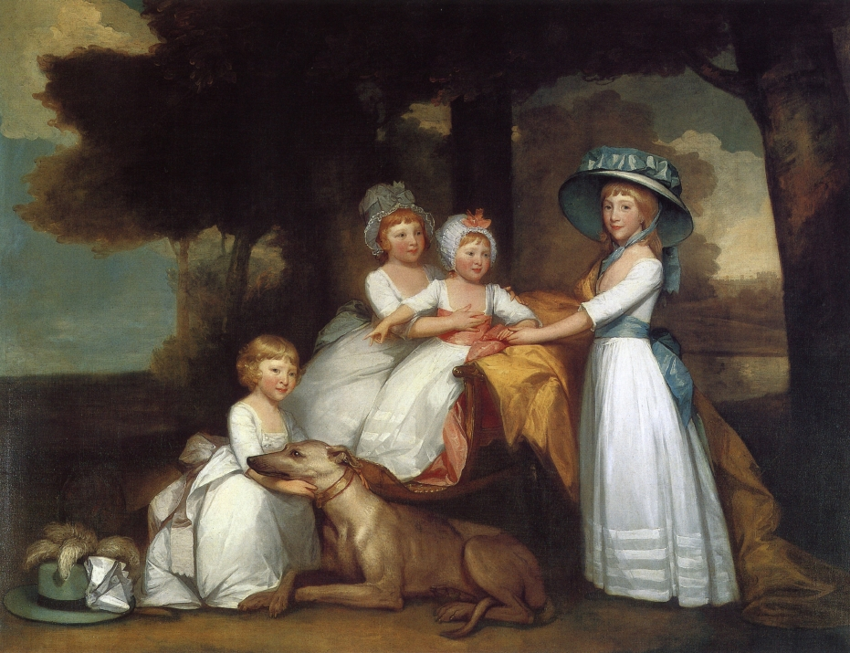 Children of Hugh Percy, 2nd Duke of Northumberland (1742-1817) and his second wife Frances Julia Burrell (1752-1820).